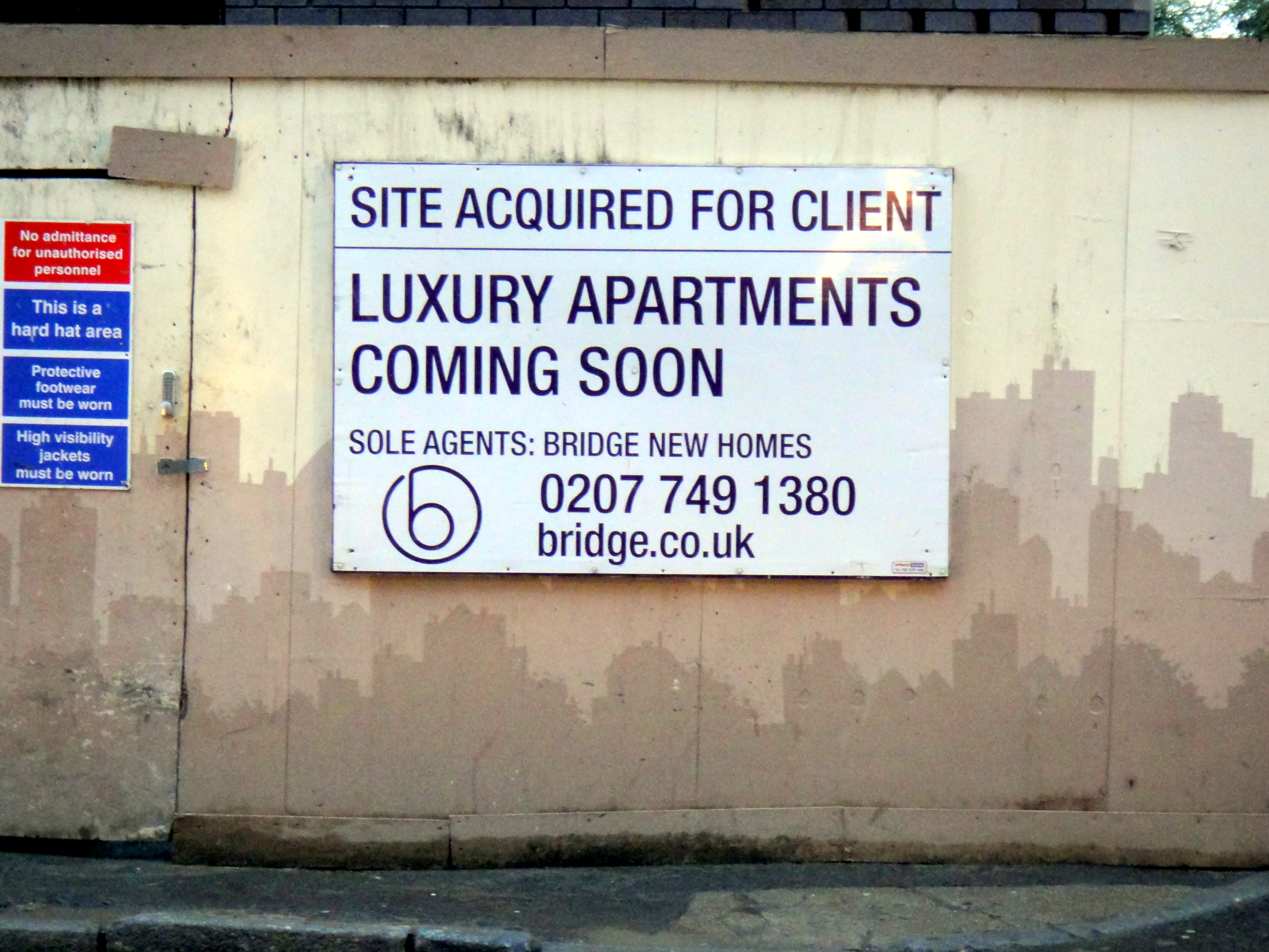 Building site in London, Islington, "luxury apartments coming soon"